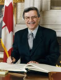 Image file of Sarkis Assadourian